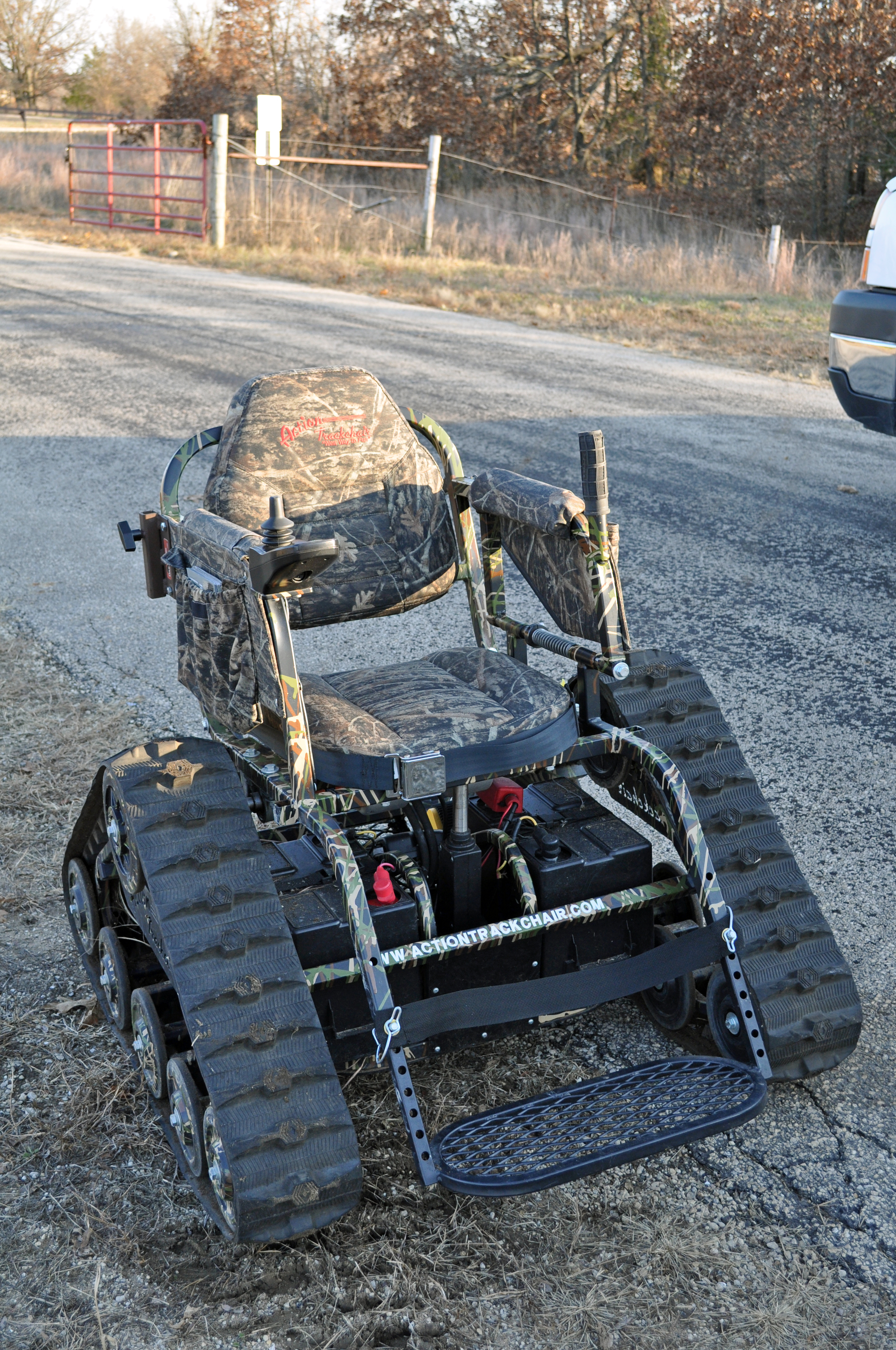 Action Trackchair was demonstrated on prep day before hunt. Photo by Tina Shaw/USFWS.